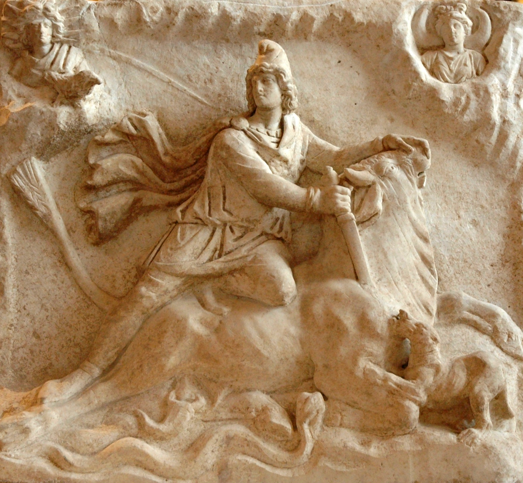 CIMRM 641: Side A (obverse) of a two-sided Mithraic relief. Found at Fiano Romano, near Rome "couché dans un petit réduit de briques" in 1926. White marble (H. 62cm, W. 67 cm, D. 16 cm) on a travertine base (H. 10cm, W. 76cm, D. 50cm). 2nd-3rd century. This (obverse) face of the monument depicts a tauroctony scene. Mithras slaying the bull in a cave, above which in the upper corners Sol (top left) and Luna (top right) emerge. Luna has a crescent behind her shoulders. Around Sol's head is a crown of twelve rays, plus another that darts out in the direction of Mithras. Also in the upper left is a raven. The dog, serpent, scorpion are set at their standard positions. The tail of the bull ends in ears of wheat. The reverse face of this monument is a banquet scene. See Image:Mithras banquet Louvre Ma3441.jpg